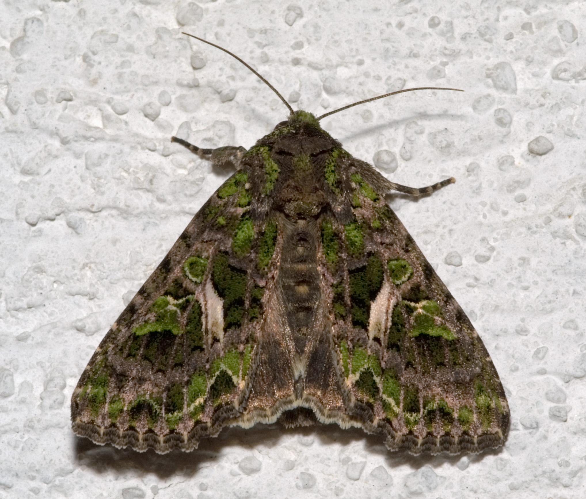 Description: Trachea atriplicis